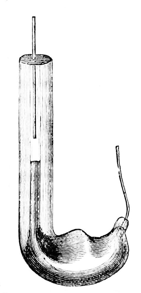 Fire alarm thermostat